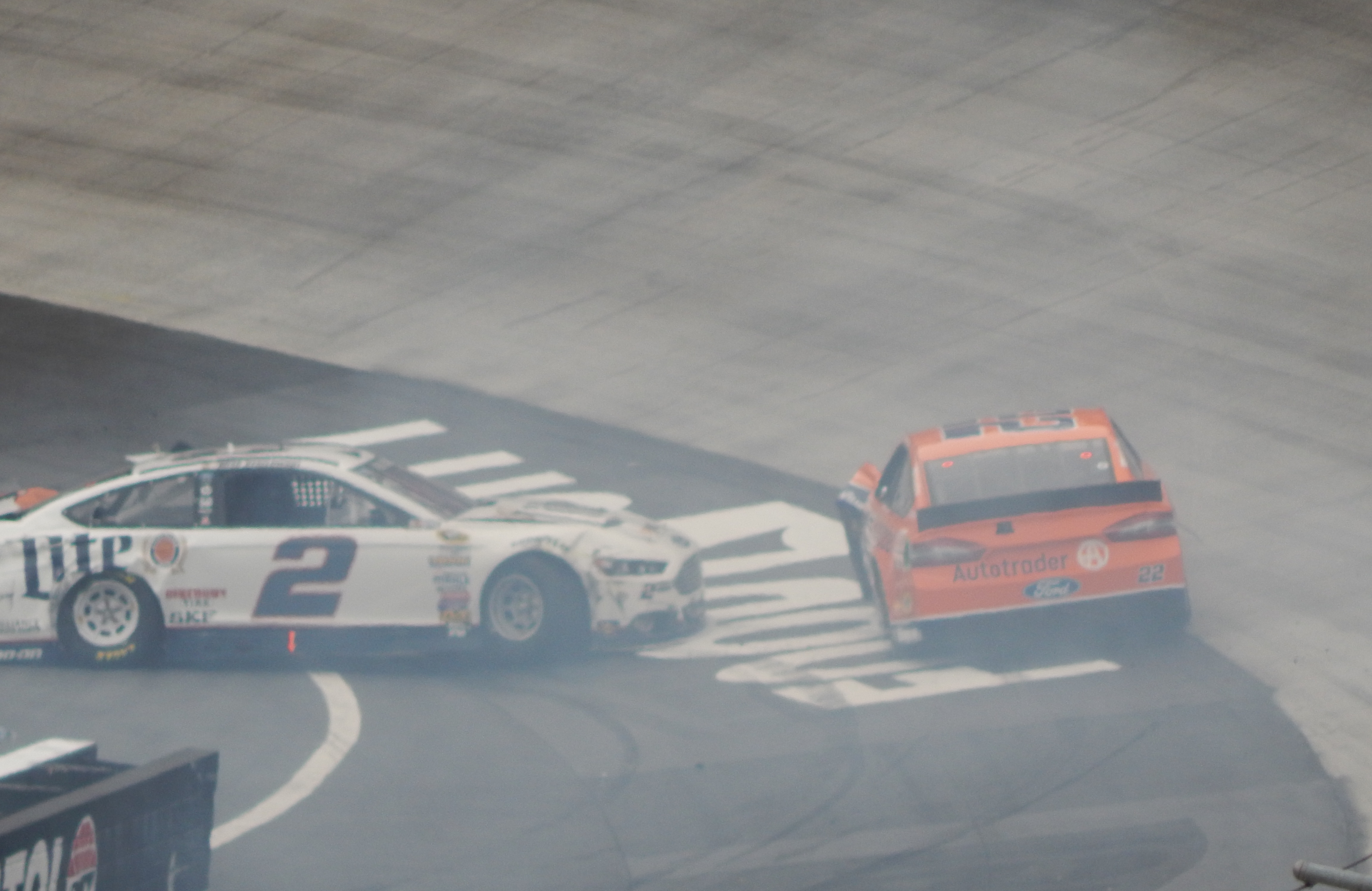 The Team Penske duo gets taken out on lap 20.